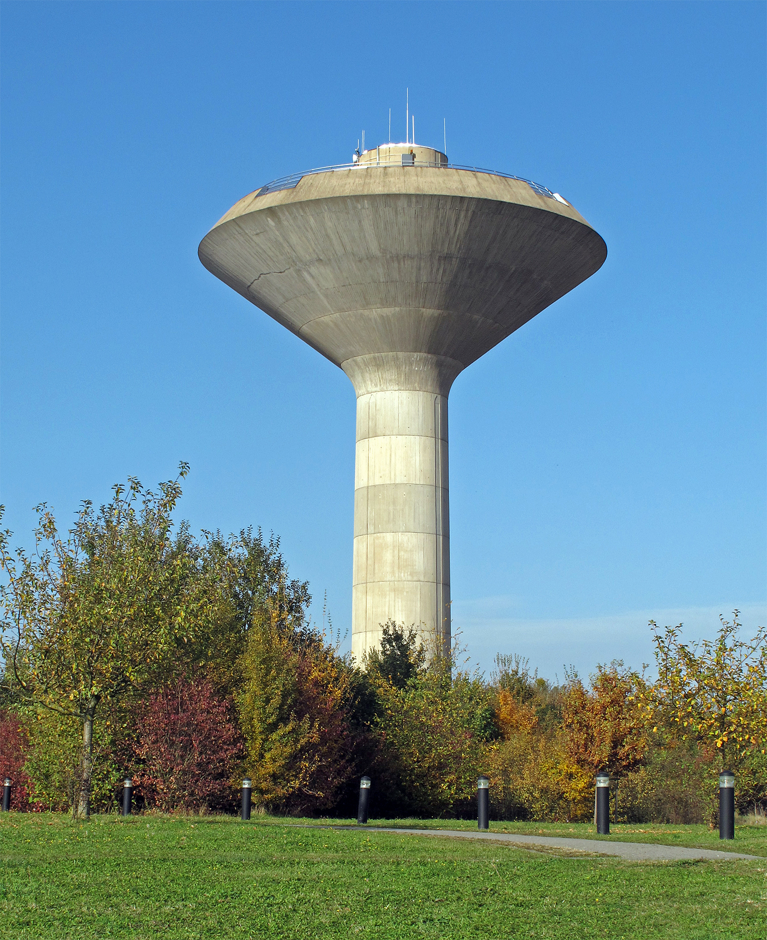 Water tower in Remerschen, Luxembourg